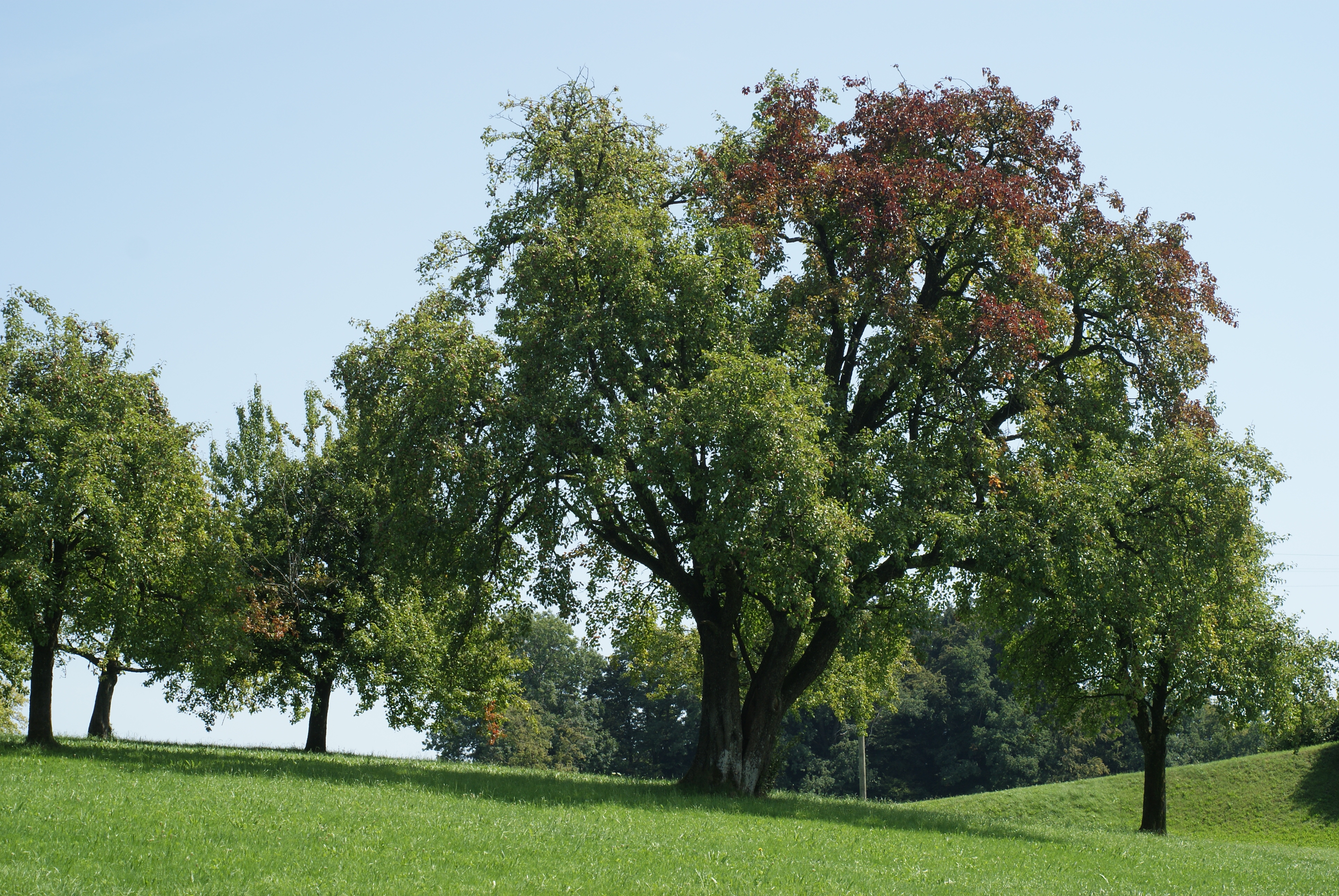 Standard tree of the Swiss pear variety "Schweizer Wasserbirne".